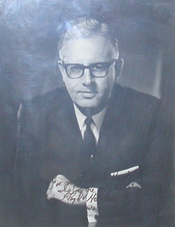 Floyd Hicks, US Representative from Washington